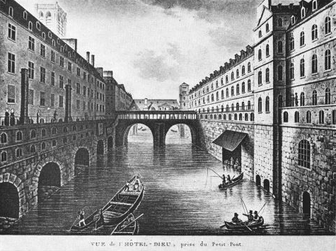 View of the hospital of Hotel-Dieu from the bridge of Petit-Pont. The bridge is the pont Saint-Charles or bridge of Hotel-Dieu.